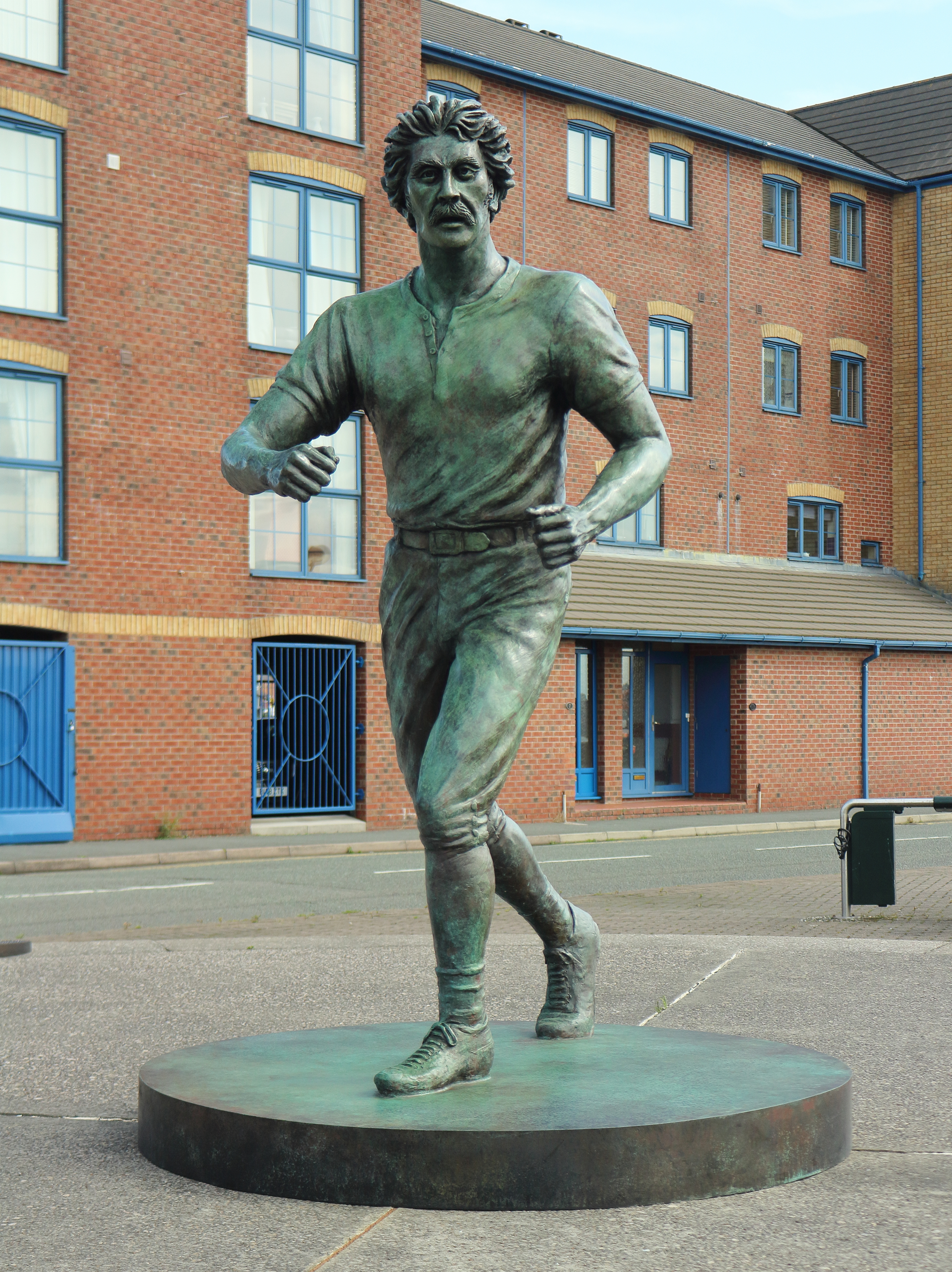 Statue of John Hulley on Liverpool Waterfront, installed June 2019.